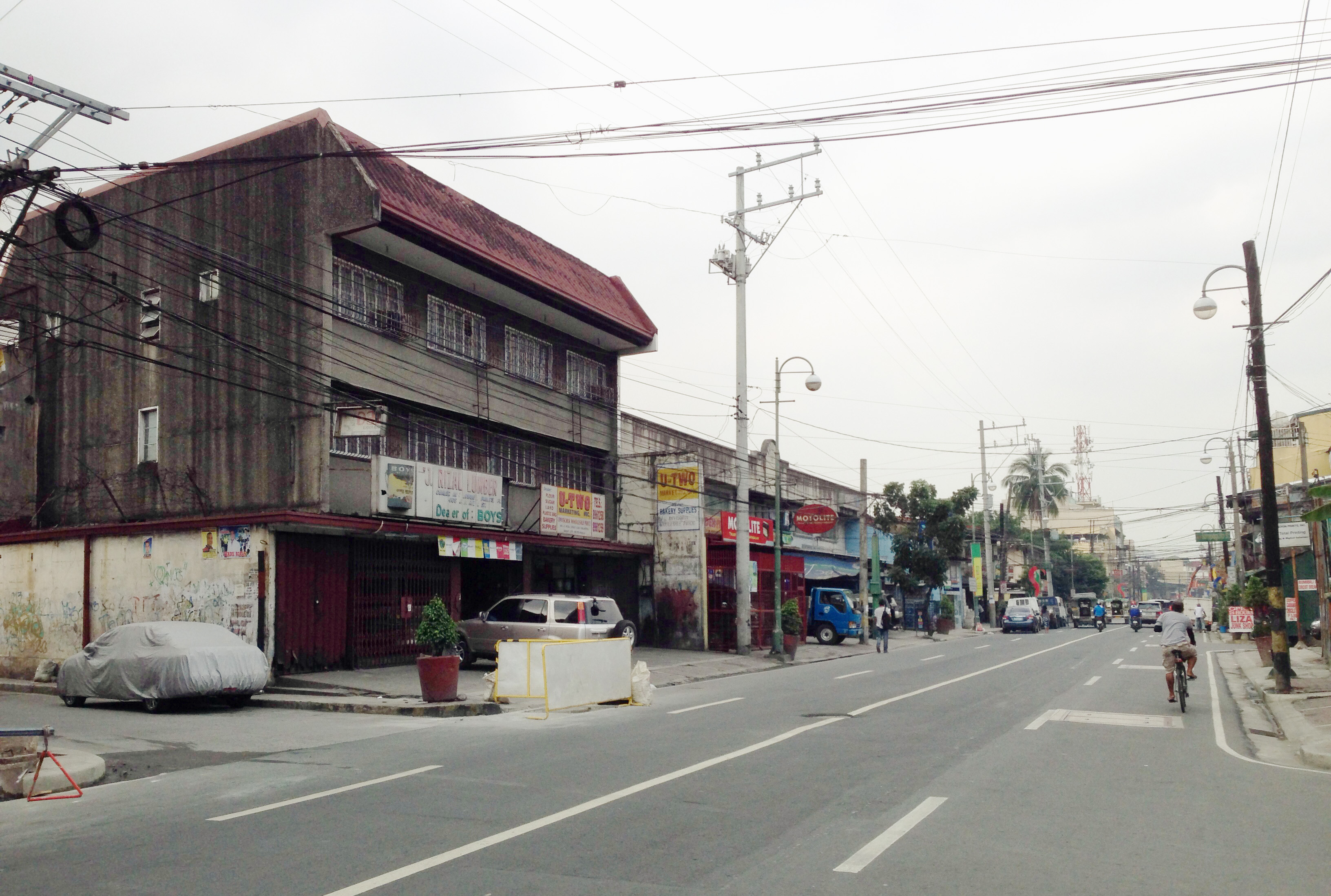 J.P. Rizal Avenue near Tejeros, Makati, Manila